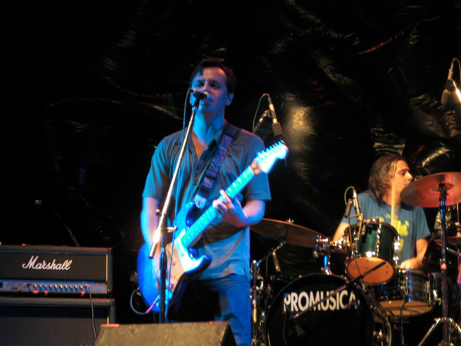 El cantante y compositor de rock argentino, Francisco Bochatón en 2009.